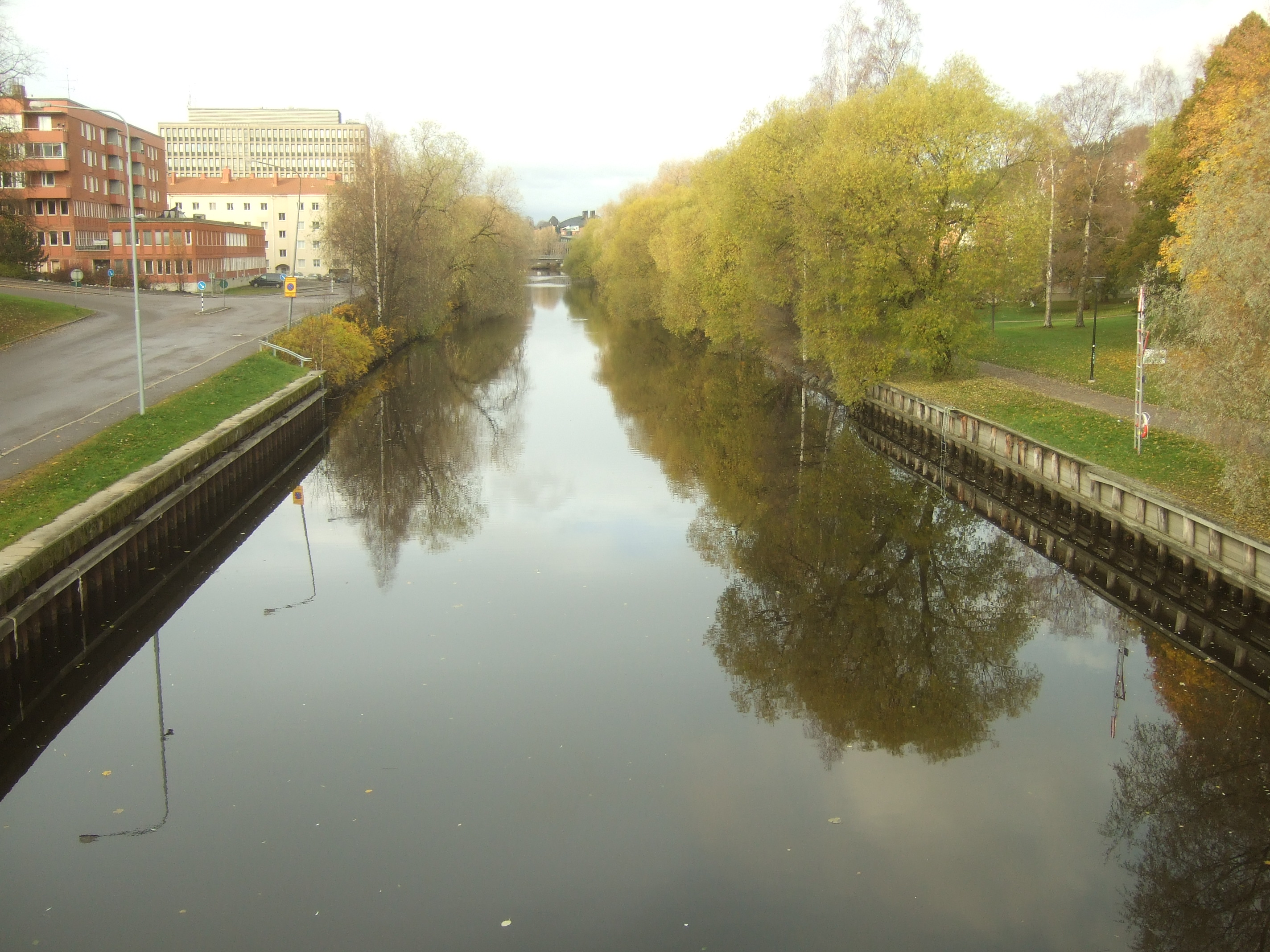 Selångersån river in Sundsvall, viewed upstream from the bridge Storbron along Skolhusallén street, towards west. Office buildings at Ågatan visible to the left. Trees in Badhusparken to the right. Mid Sweden University buildings can be seen at the horizon.